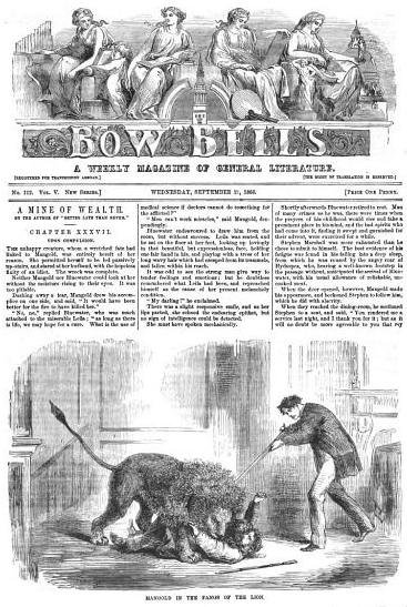 Cover of magazine "Bow Bells" for 11 September, 1866 (published by John Dicks, London). Illustration caption: "Mangold in the fangs of the lion"